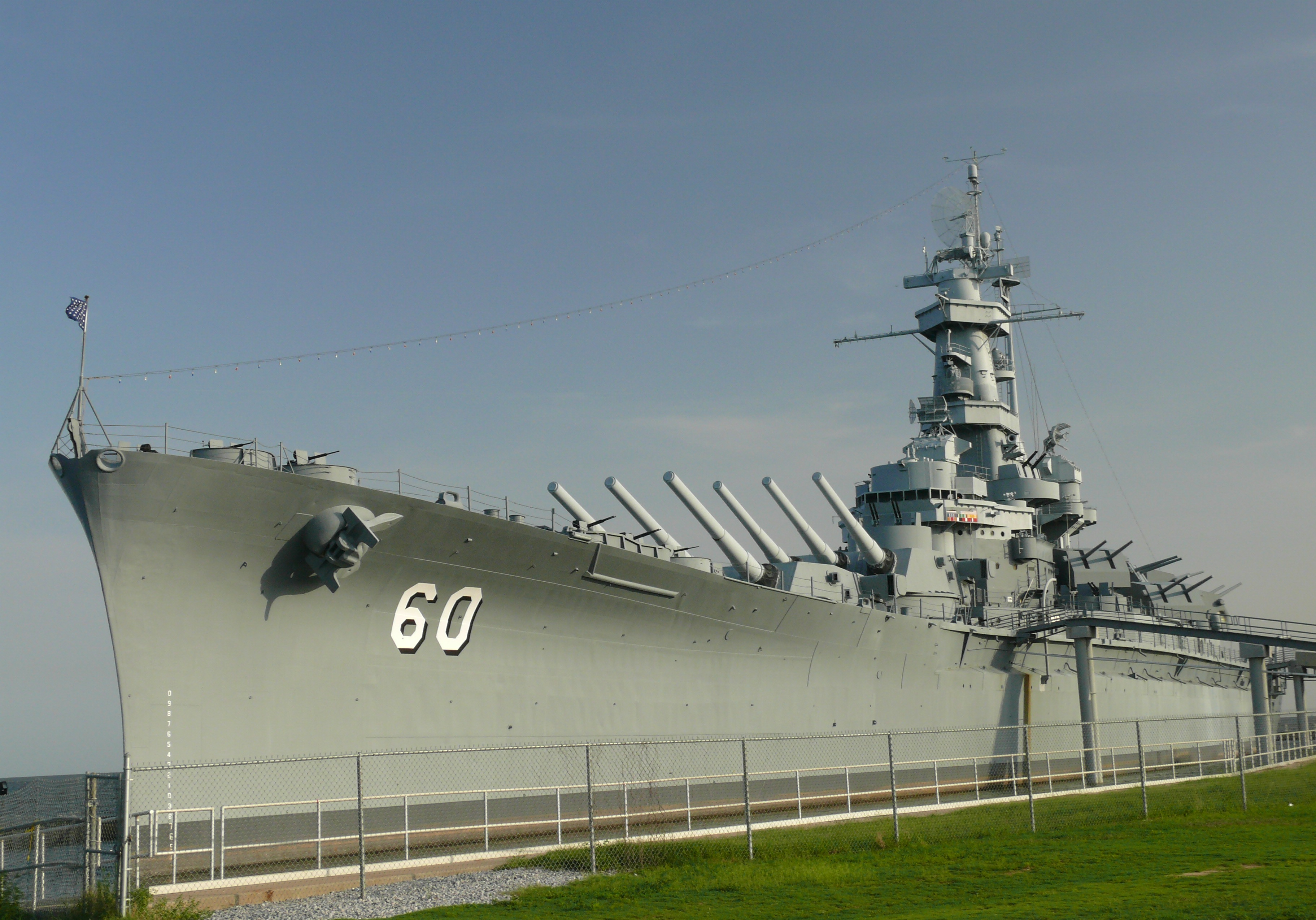 Battleship museum USS Alabama